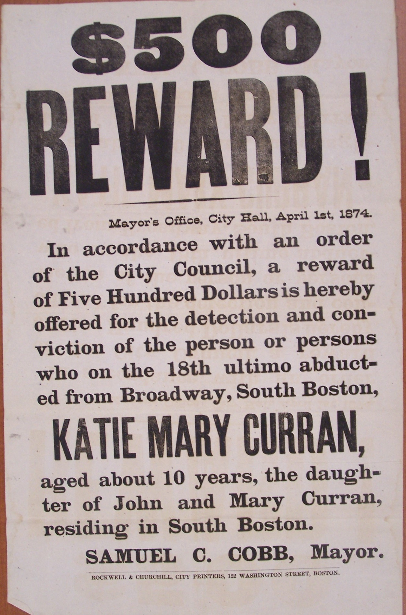 Reward poster for Katie Mary Curran, abducted by Jesse Harding Pomeroy